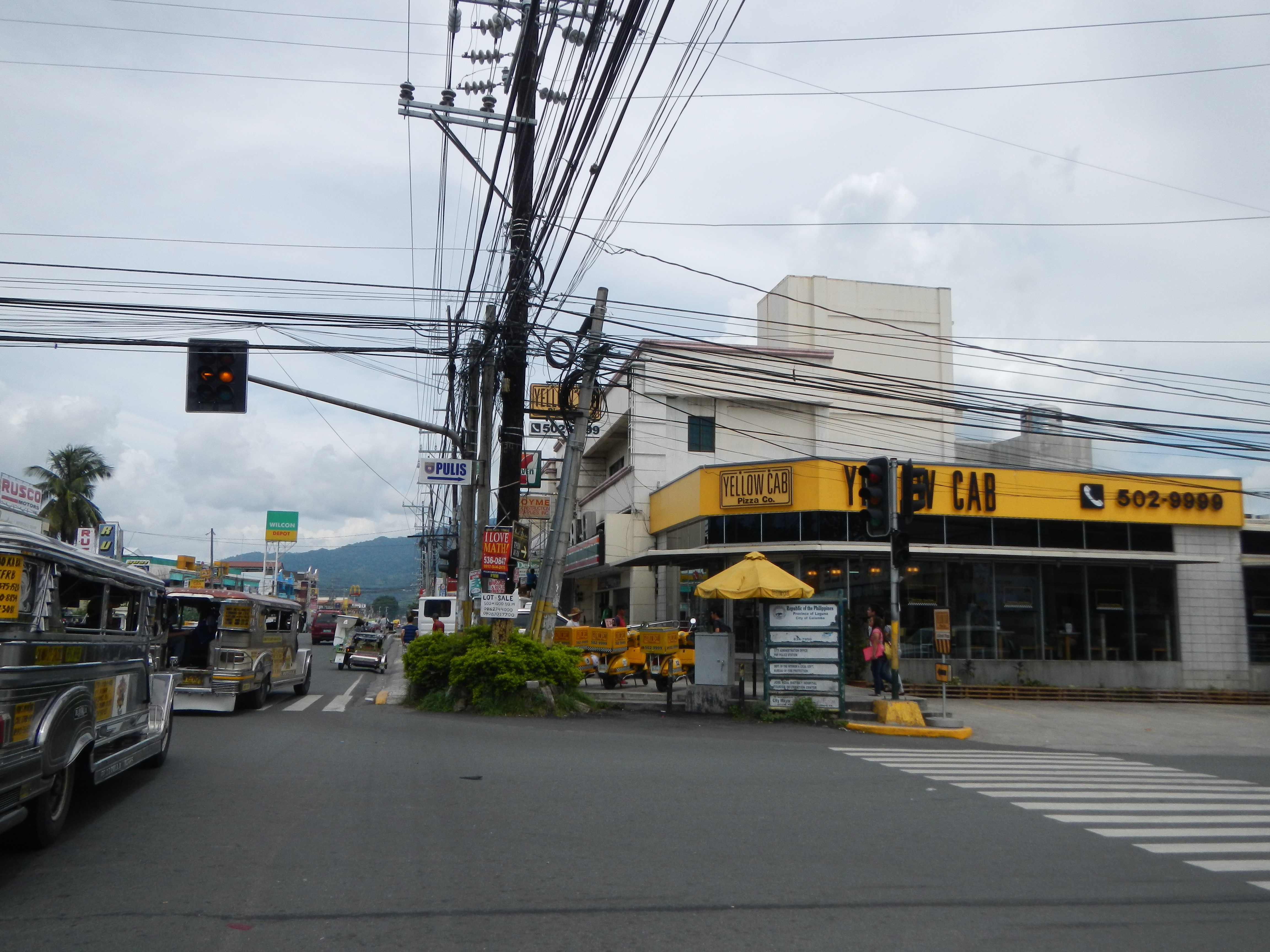 Photos of Downtown, Crossing (Junction) and the New Calamba City Hall Complex - [1] Chipeco Avenue, Real, a 4-storey building excluding the penthouse. It has approximately 9,000 sq.m. of floor area. Coordinates: 14°11'38"N 121°9'35"E --- Calamba, Laguna[2] (NSCB: 043405000) is a component city of Laguna, [3] Philippines. It is the regional center of the CALABARZON region. It is situated 54 kilometres (34 mi) south of Manila, with numerous hot spring resorts, most of which are located in Barangay Pansol and Barangay Bucal. According to the latest census, the city has a population of 389,377, making it the largest local government unit in Laguna. It is also the 4th densest city in the province with more than 2,600 people per square kilometer; Calamba became the second component city of the Laguna by virtue of Republic Act No. 9024, “An Act Converting the Municipality of Calamba, Province of Laguna into a Component City to be known as the City of Calamba.” R.A. 9024 was signed into law by President Gloria Macapagal-Arroyo on March 5, 2001, at the Malacañan Palace. [4] Coordinates: 14°11'15"N 121°6'32"E 2013 Election ResultsMayor: Justin Marc S.B. Chipeco (Nacionalista)[5] Vice Mayor: Roseller H. Rizal (Nacionalista) [6] geographical location: Laguna, Region 4, Philippines, Asia Geographical coordinates: 14° 12' 42" North, 121° 9' 55" East This place is situated in Laguna, Region 4, Philippines, its geographical coordinates are 14° 12' 42" North, 121° 9' 55" East and its original name (with diacritics) is Calamba. - José Rizal, [7] Website, New City Hall